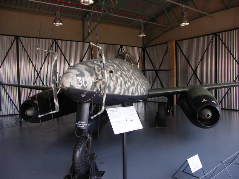 Me 262 B-1a/U1, W.Nr.110305 "Red 8", with FuG 218 radar antennas. On display at the South African National Museum of Military History, Johannesburg, South Africa